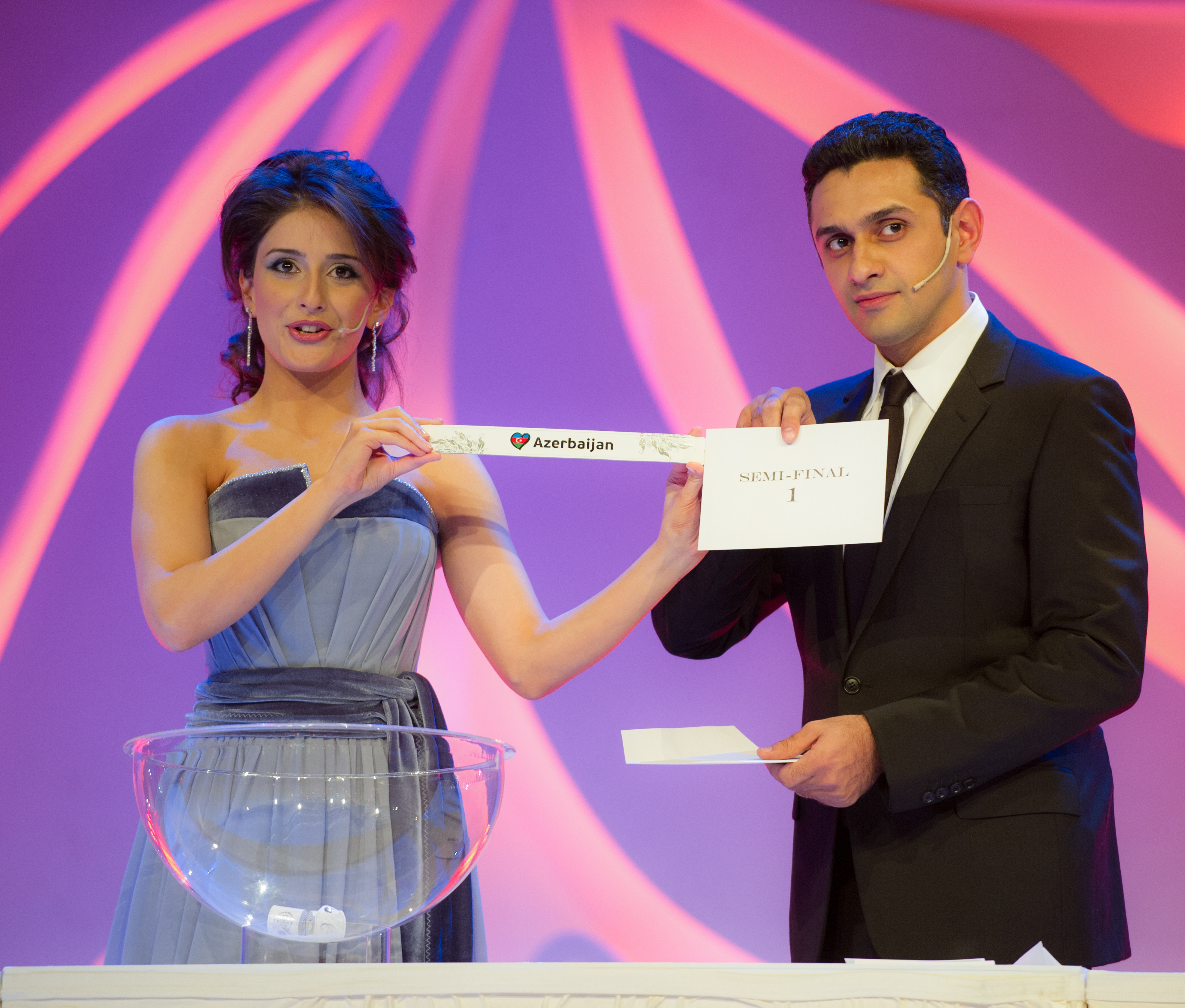 The hosts, Leyla Aliyeva and Nazim Huseynov